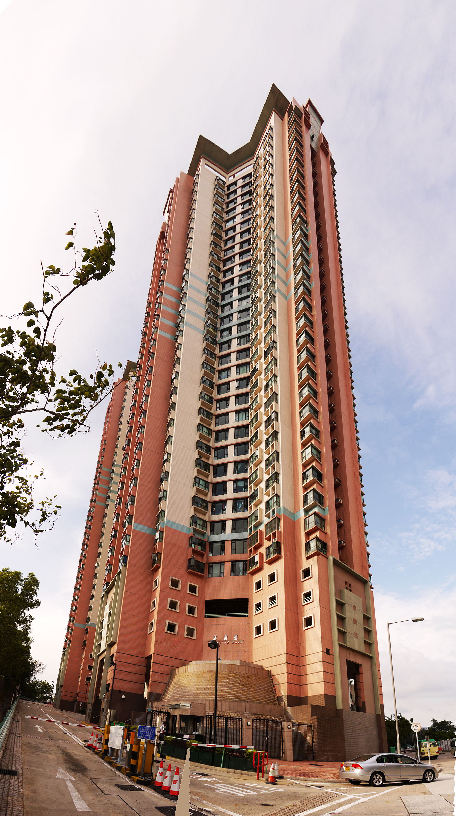 Highland Park 1